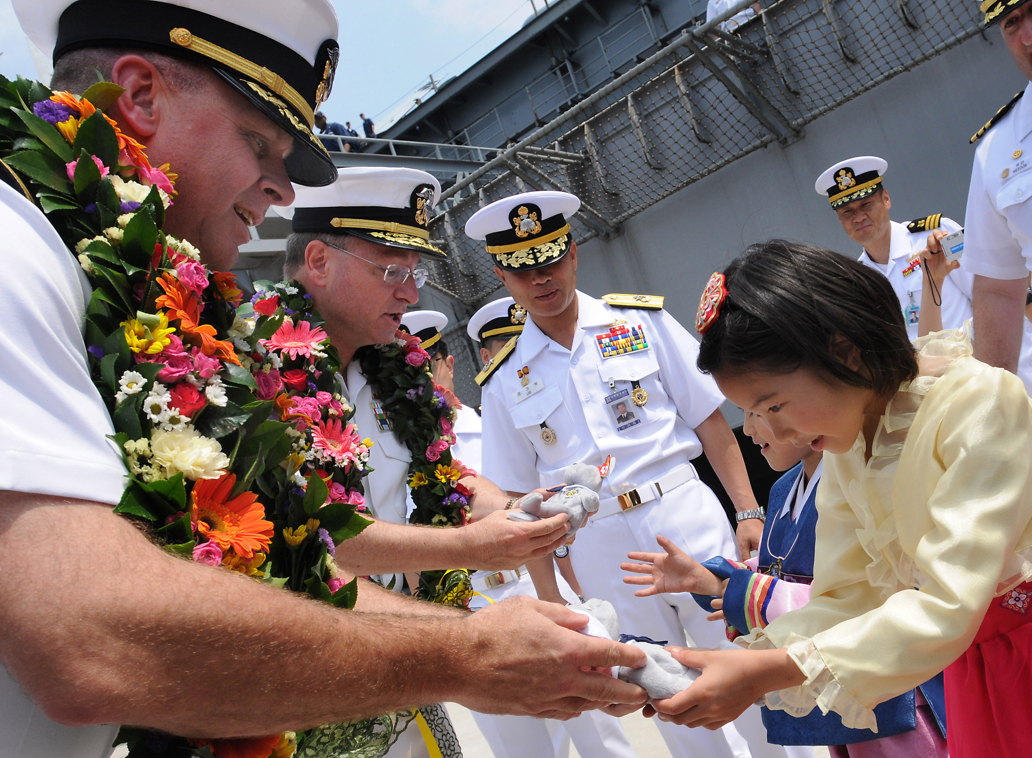 BUSAN, Korea (July 14, 2008) Rear Adm. Phil Wisecup, commander of Carrier Strike Group Seven, and Capt. Kenneth Norton, commanding officer of the aircraft carrier USS Ronald Reagan (CVN 76), give out "Ronnie bears" during their welcome after mooring in Busan, Korea. The Nimitz-class aircraft carrier is in Busan for liberty and community relations projects as well as some sporting events with the host country. The Ronald Reagan Carrier Strike Group is on a routine deployment in the U.S. 7th Fleet area of responsibility. U.S. Navy photo by Senior Chief Mass Communication Specialist Spike Call (Released)